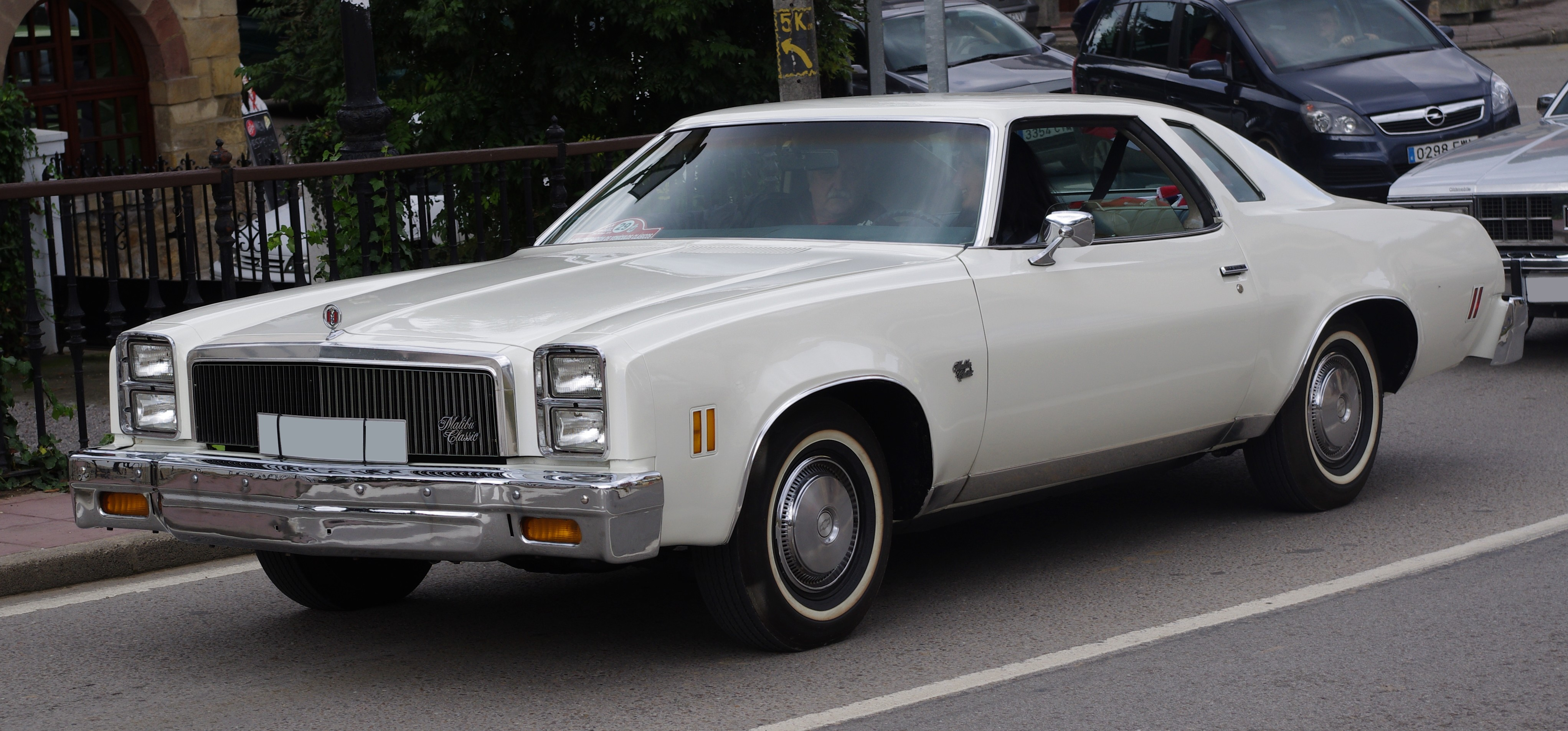 This, along with the other American car at the show were my favorites. Two models I had never seen before in person and I loved them! They were in excellent condition. If I'm right both probably belonging to the same owners.